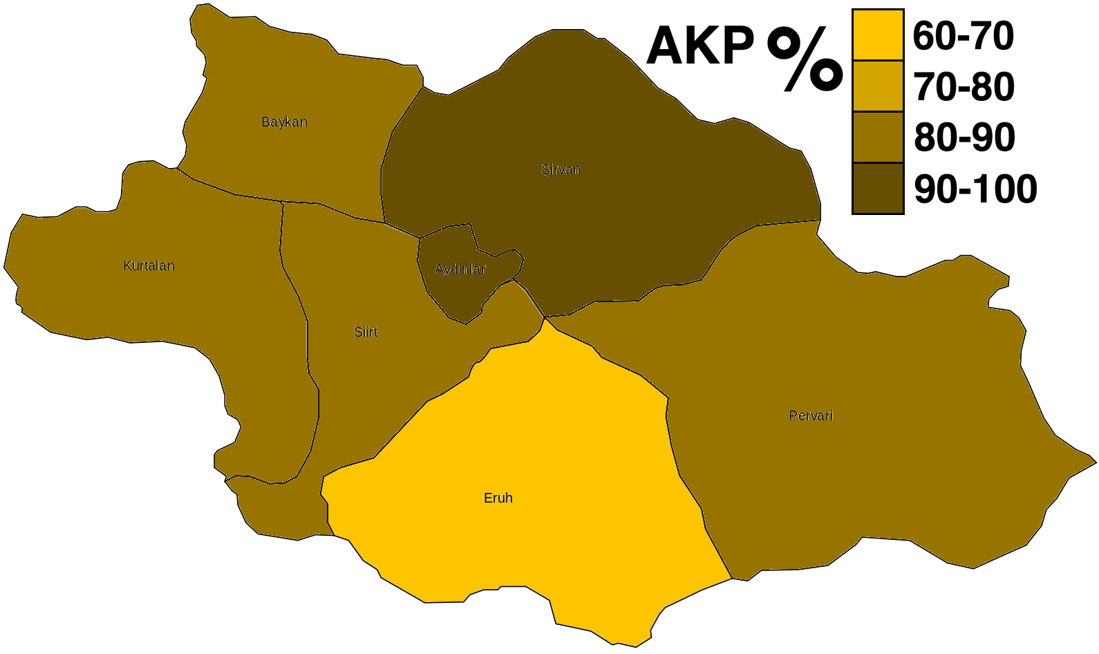 Votes received by the AKP in the 2003 Siirt by-election